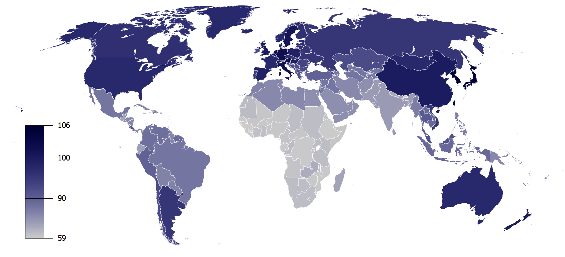 A map of "National IQs Based on the Results of Intelligence Tests" according to "Intelligence and the Wealth and Poverty of Nations" by Richard Lynn